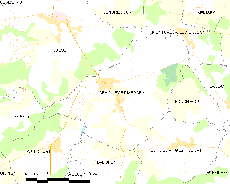 Map of French municipality